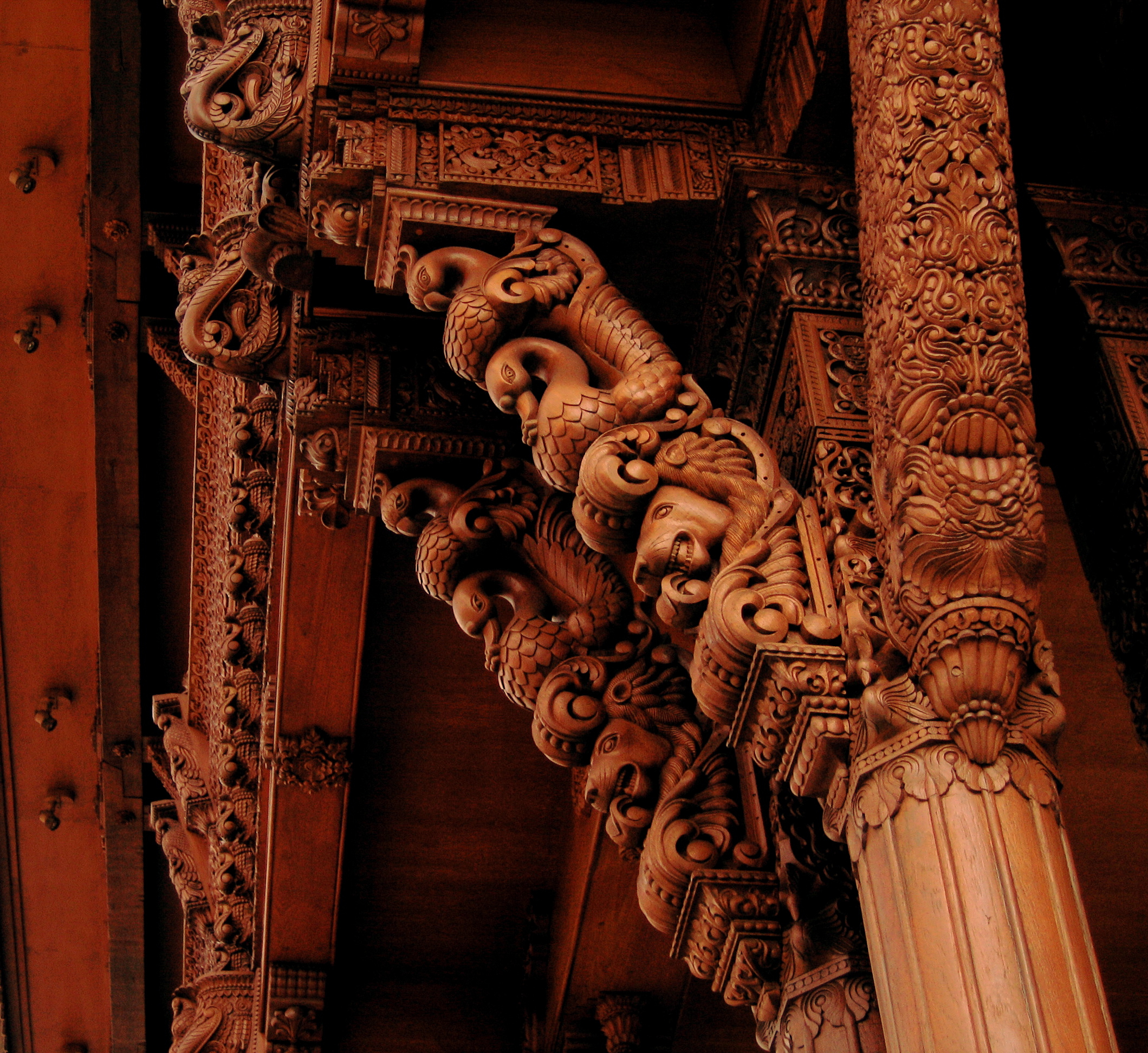 neasden temple, religion, brent, baps shri swaminarayan mandir, hinduism, hindu temple